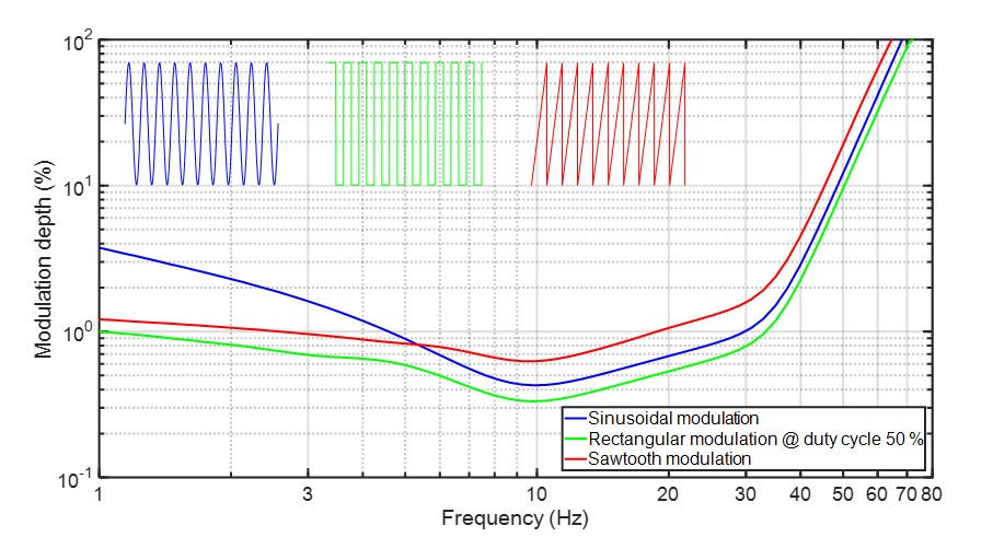 Flicker visibility threshold curves for three different types of light modulations (PstLM=1 curves)